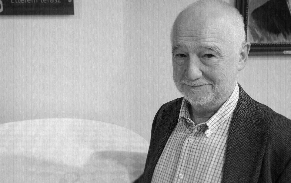 Ádám Nádasdy (born 15 February 1947) is a Hungarian linguist and poet.